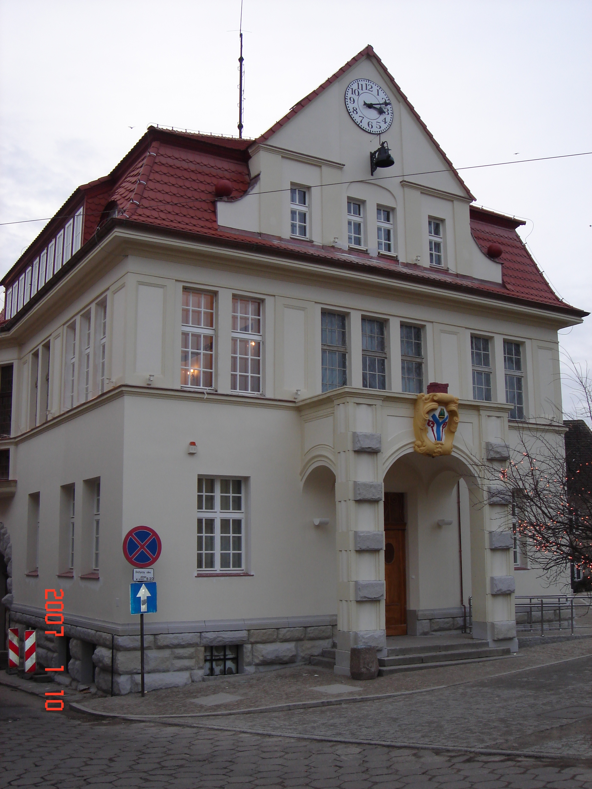 Town hall karlino